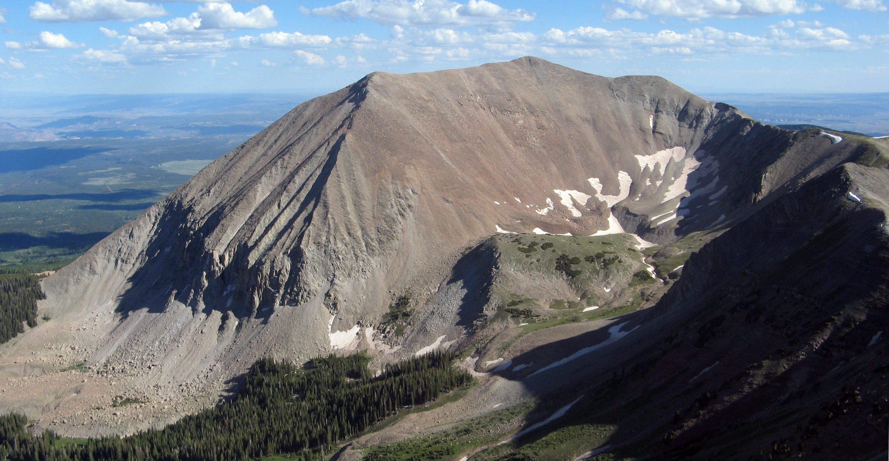 North face of Mount Peale in the La Sal Range of Utah — taken from north-(NNW), summit of Mount Mellenthin-(~1.8 mi).(The lands beyond include: La Sal, Utah-(southeast), and Lisbon Valley; on horizon, West Summit (mesa) and Summit Point, Utah.)